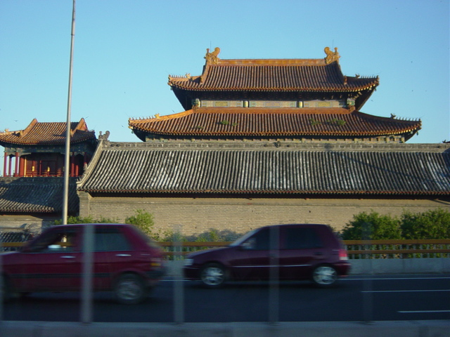 Yonghegong Lamasery from the 2nd Ring Road